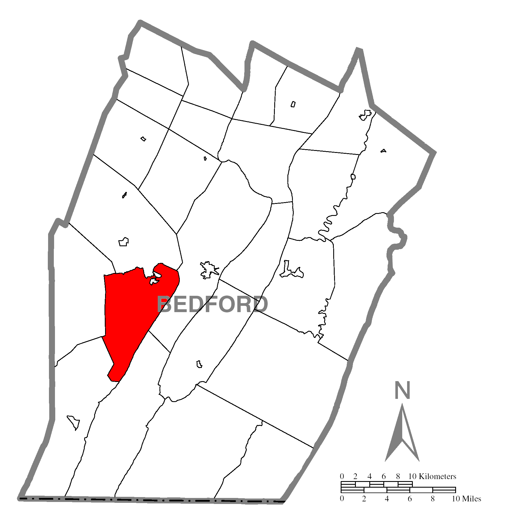 A map of Bedford County showing Harrison Township, Pennsylvania (alternate) highlighted on the map.